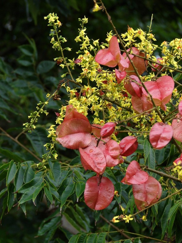 Chinese Rain Tree Koelreuteria elegans subsp. formosana, flowers and fruit. Cultivated, Tamborine, QLD, Australia.